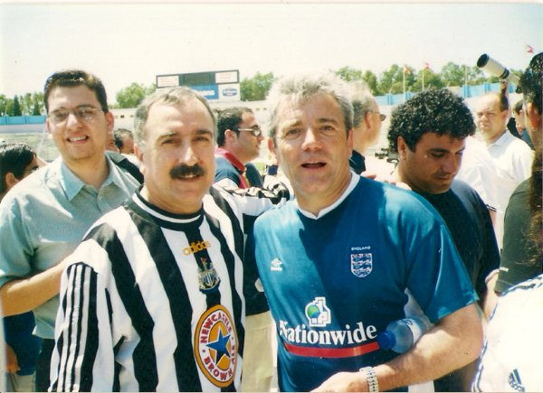 Louis Azzopardi together with former Newcastle Manager Kevin Keegan